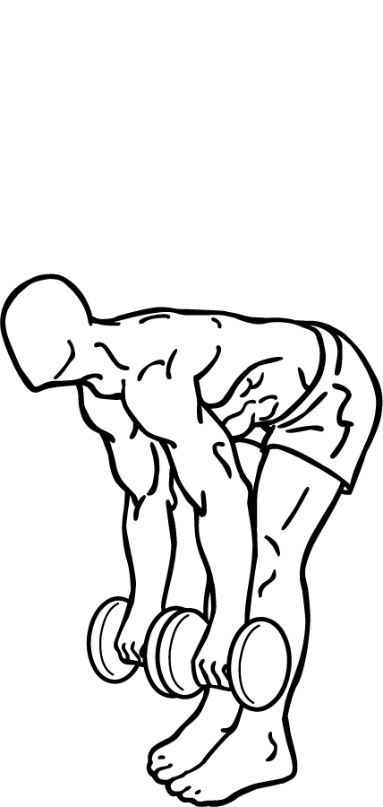 an exercise of lower back